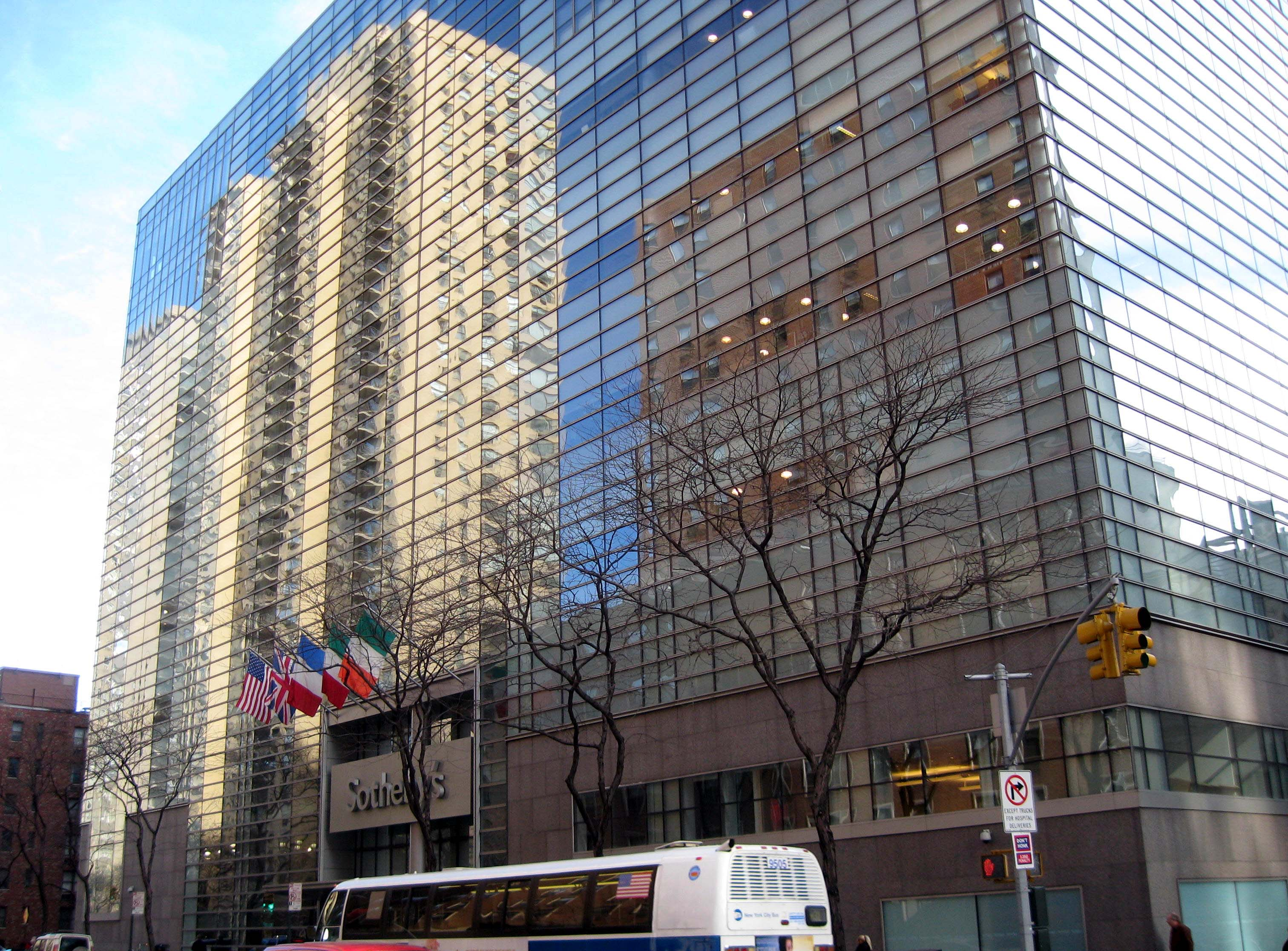 Looking northeast across York Avenue and 71st Street at Sotheby's at 1334 York Ave on a cloudy midday.